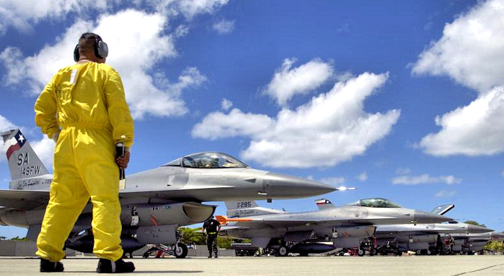 TSgt. Gerardo Guevara waits for his F-16 to shut down their engines before conducting his post flight checks at Hickam AFB, Hawaii on September 8th, 2006. Six F-16s from the Texas Air National Guard 149th FW came to Hickam to participate in Exercise Sentry Aloha. [USAF photo by TSgt. Shane A. Cuomo]